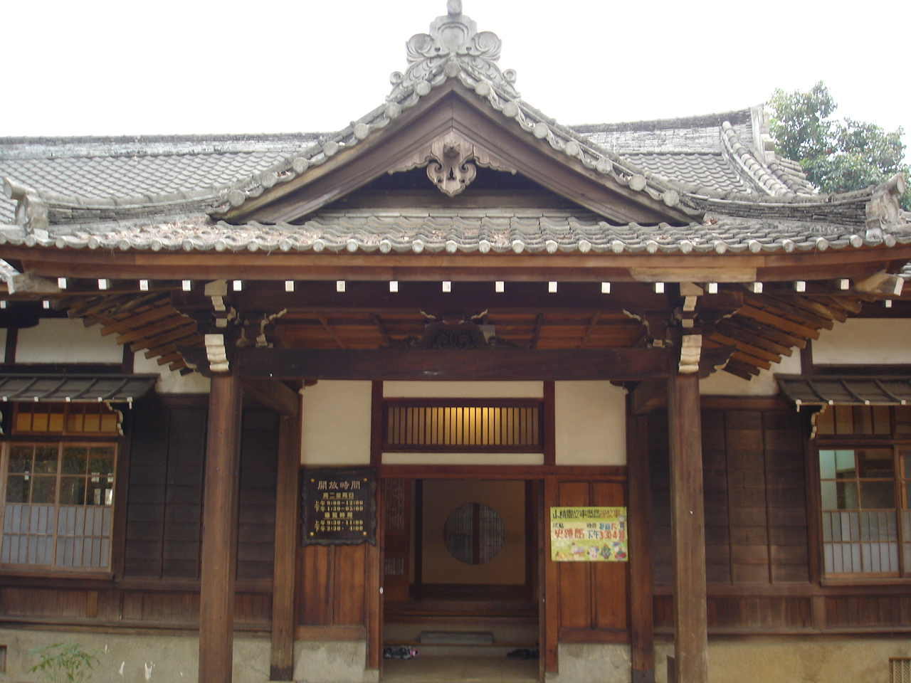 Chiayi City Historical Relic Museum, former Chiayi Shrine Temple Chai.中文（台灣）: 嘉義市史蹟資料館，原嘉義神社齋殿。